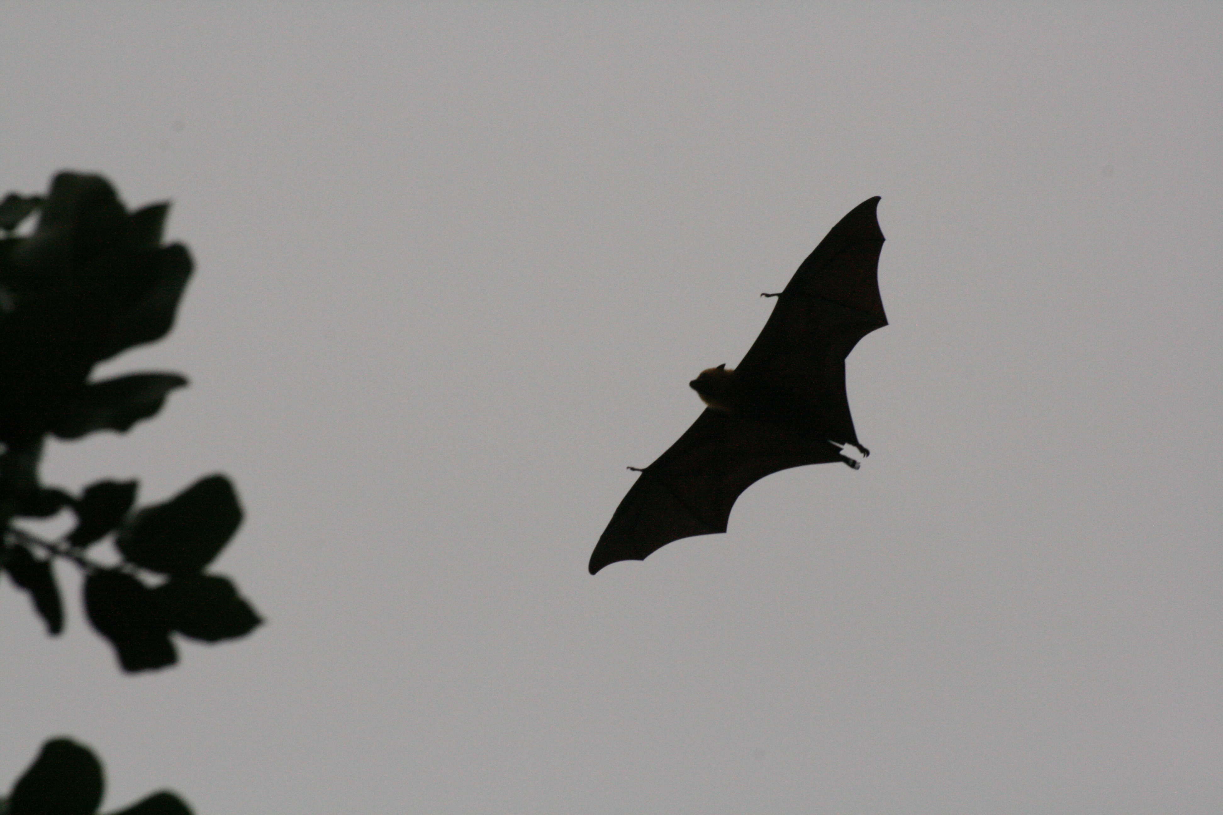 Pteropus seychellensis (Seychelles Fruit Bat) on La Digue island on the Seychelles